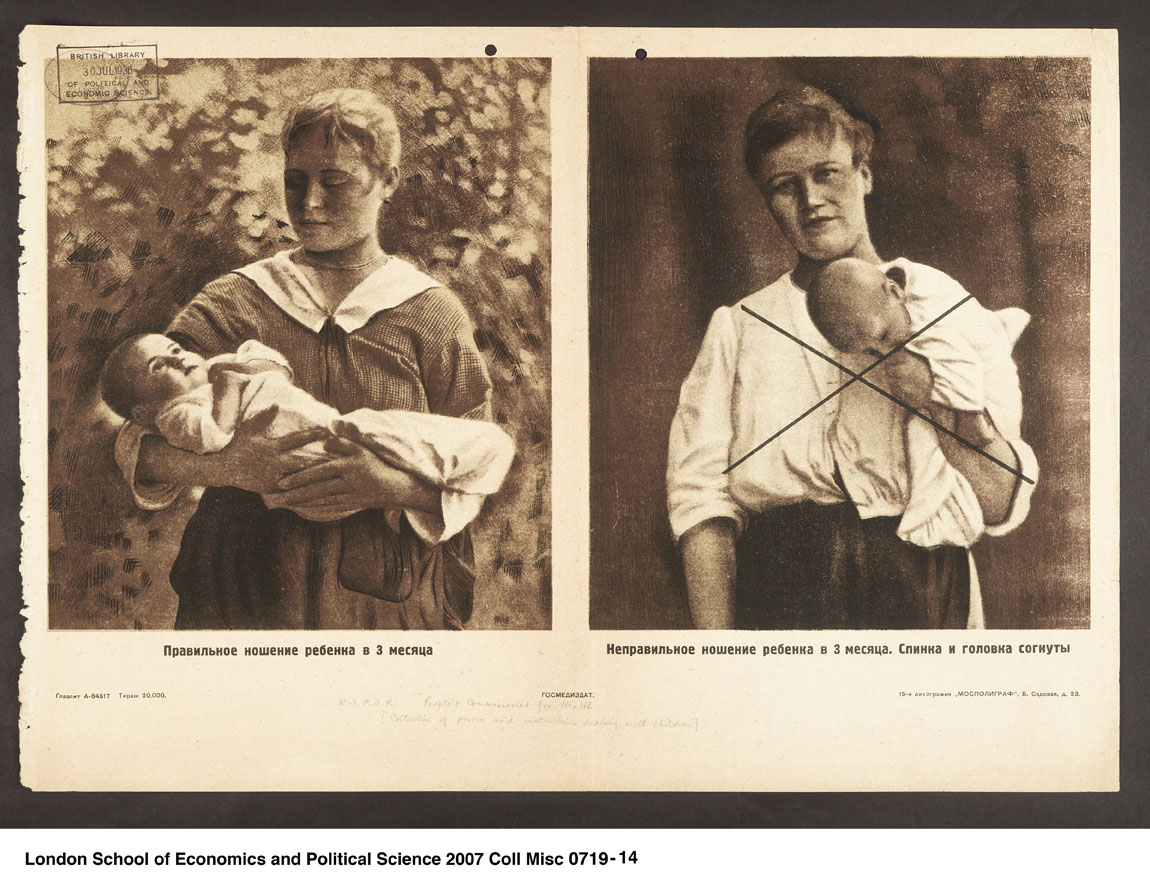 Sepia-toned print regarding the safe carriage of a baby. In the first picture, a woman holds her baby correctly, in her arms. In the second, the woman holds her baby with "spine and head drooping". Printer: Mospoligraf Publisher: Gosmedizdat Place of Production: Moscow Date: 1930 Persistent URL: misc 0719/14')